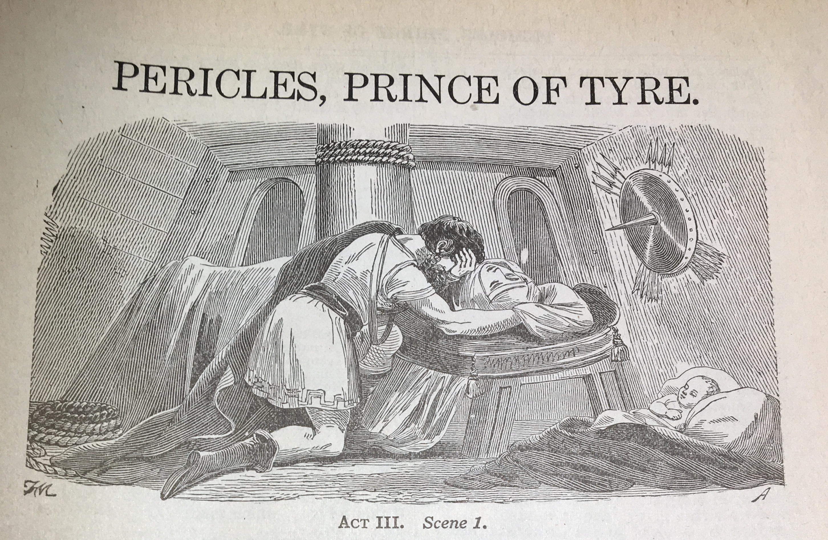 A lithograph image depicting a scene from Pericles Prince of Tyre